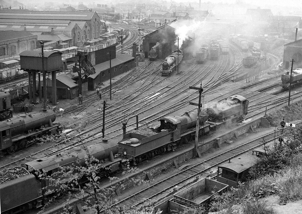 Worcester Locomotive Depot. View SW, from convenient path just above the direct line ('Birmingham Loop') between Tunnel Junction and Rainbow Hill Junction - an ideal train-watching spot. The Depot had two separate Sheds: the centre one was the 'Passenger Shed', with Shrub Hill Station beyond, and the 'Goods Shed' was on the right. The lines from Tunnel Junction (off to the left), Droitwich Spa, Kidderminster, Birmingham (Snow Hill and New Street) etc. is curving behind the primitive ash plant and beyond it is the small GW Locomotive Works and the GW Goods Depot; the lines between Shrub Hill and Foregate Street Stations, thence to Malvern and Hereford were in the murk on the right. The whole complex was Great Western: ex-Midland trains, which diverted through Worcester off the main Birmingham - Gloucester - Bristol line at Stoke Works Junction and rejoined it at Abbots Wood Junction, did so 'on suffrance' but there were quite a number of them and LMS/LMR locomotives always featured in scenes such as this, their locomotives being serviced at the GW Depot. The triangle of main lines and the two GW sheds were totally inadequate for the efficient handling of all the locomotives allocated. Worcester (coded 85A by BR) was the principal Depot of the BR (WR) Worcester District and had an allocation in 1954 of 85 steam locomotives, comprising:- 21 4-6-0s, 4 2-8-0s, 11 2-6-0s (9 GW, 2 BR), 16 0-6-0s, 8 2-6-2Ts, 20 0-6-0Ts and 5 0-4-2Ts, also 5 GW Diesel railcars. The Depot was closed to steam in 12/65, but remained a Diesel Depot until 1985. The number of engines visible in this weekday photograph is far less than would be seen on a Sunday; prominent are:- Stanier 8F 2-8-0 No. 48450 running in on the left and No. 48420 below behind 2-6-0 No. 6382 and 0-6-0T No. 9429. (The 8Fs were two of the many allocated to the Western Region during World War Two and for about 15 years afterwards).